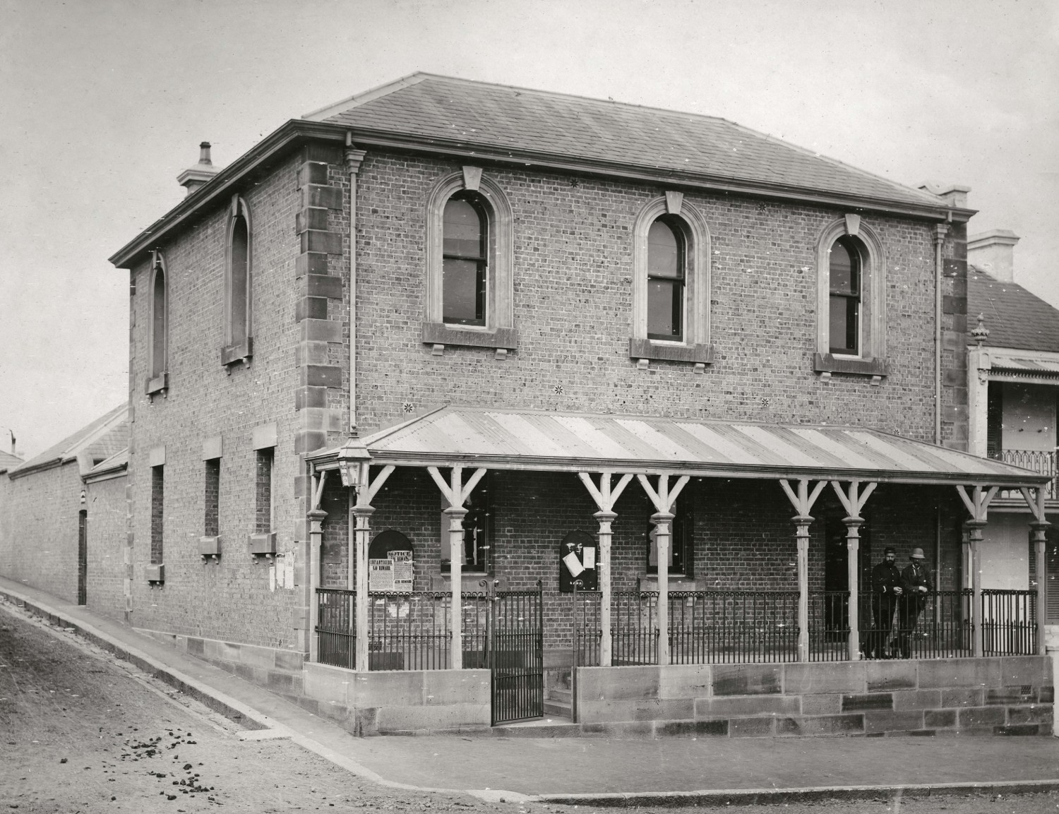 Title: make this general Dated: No date Digital ID: 4346_a020_a020000135 Rights: No known copyright restrictions We'd love to hear from you if you use our photos/documents. Many other photos in our collection are available to view and browse on our website using Photo Investigator.